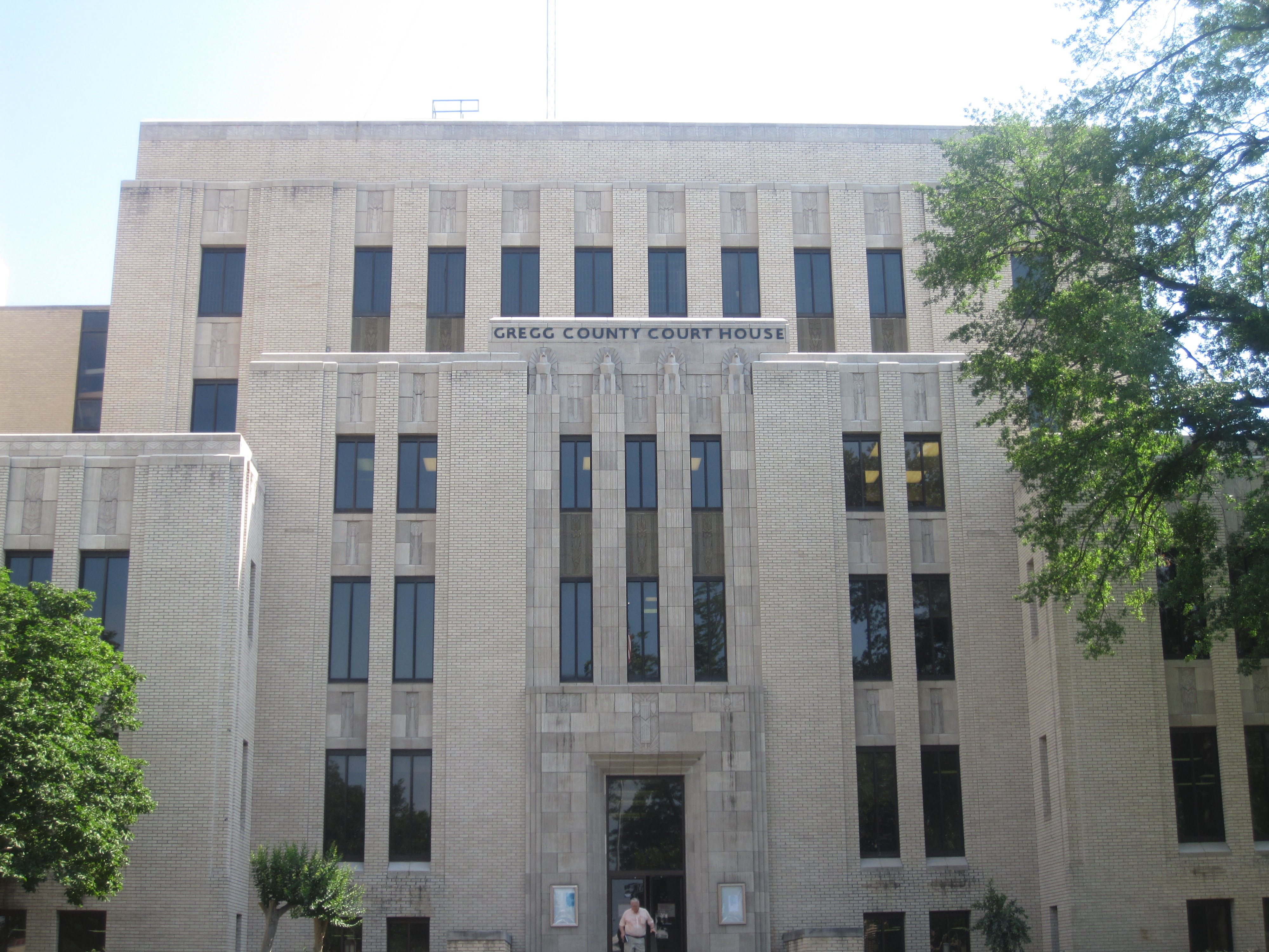 I took photo of courthouse in Longview, TX, with Canon camera.